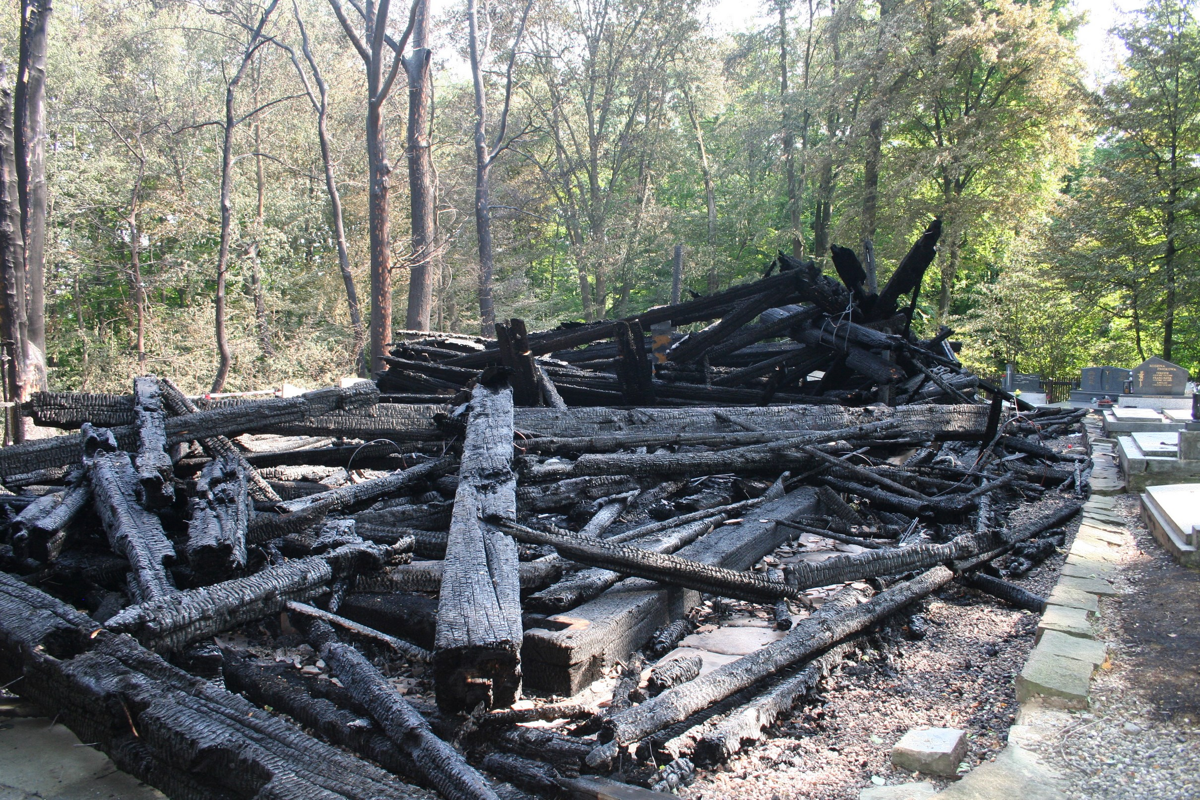 Ruins of Corpus Christi Churs in Guty (the Czech Republic).